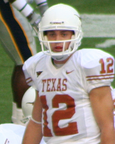 Quarterback Colt McCoy of the 2006 Texas Longhorn football team under center against Rice.